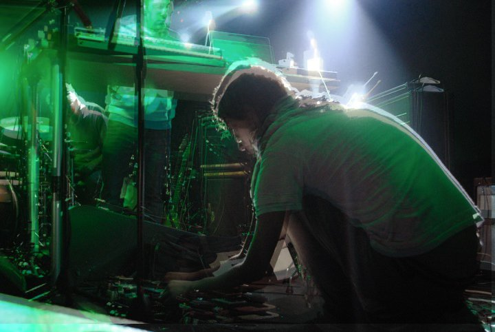 Performing in New York, 2011